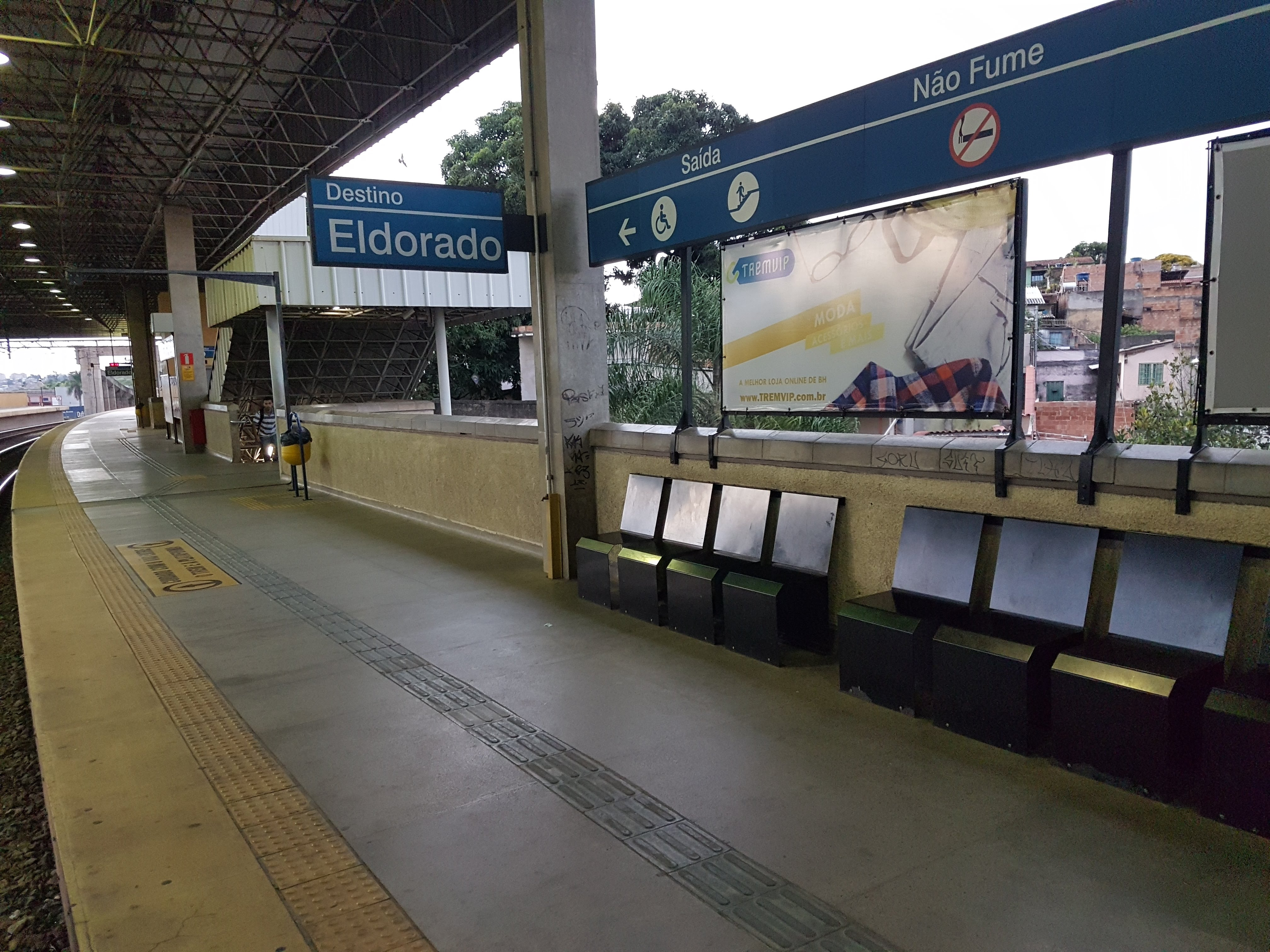 Floramar Primeiro de Maio, in Belo Horizonte, Minas Gerais, Brazil.